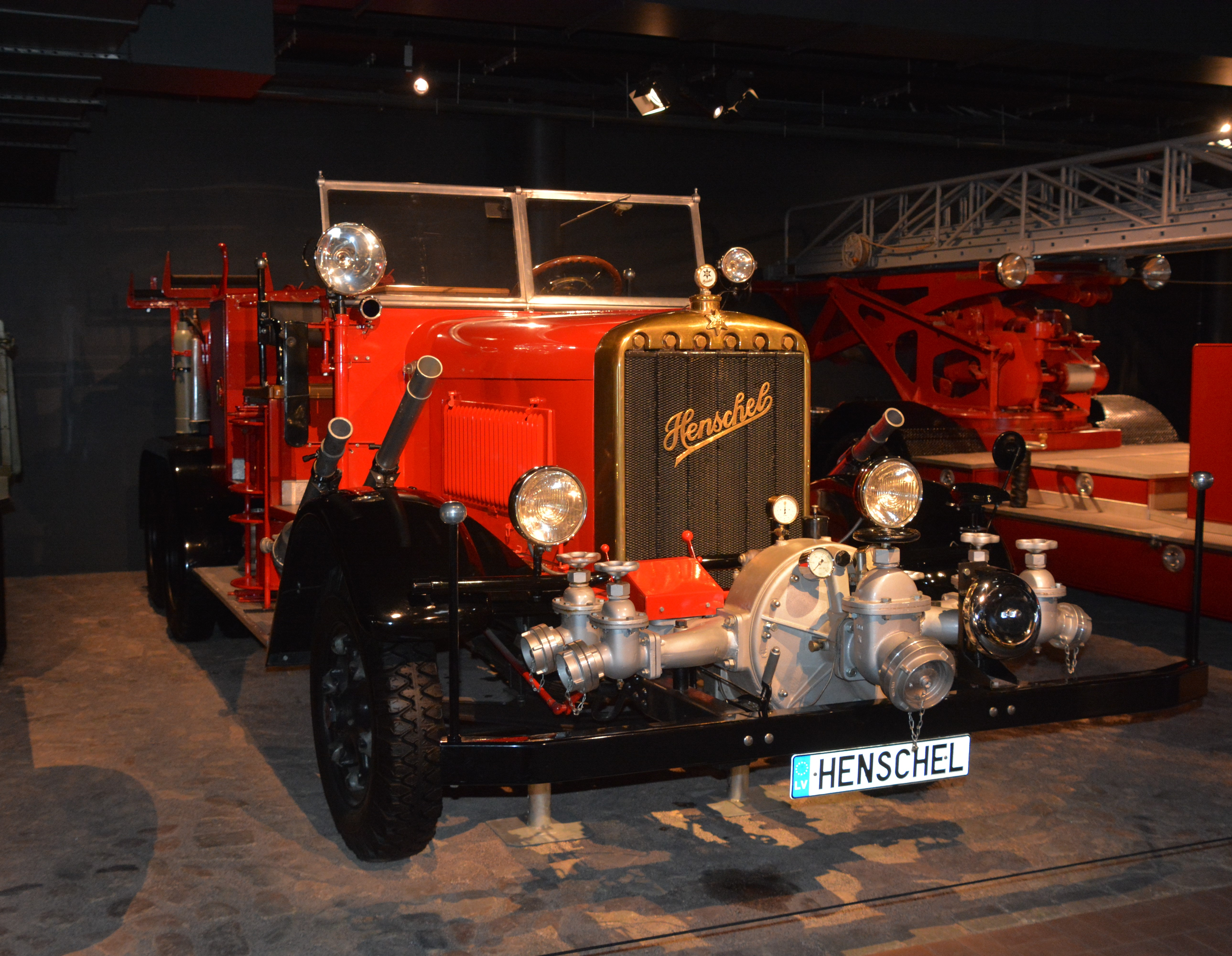 Henschel fire engine type 33D1 from 1941. 6 cylinders, 12654 cc, 120 hp. Weight 6.44 tons. Max speed 57 km/h Riga Motor Museum